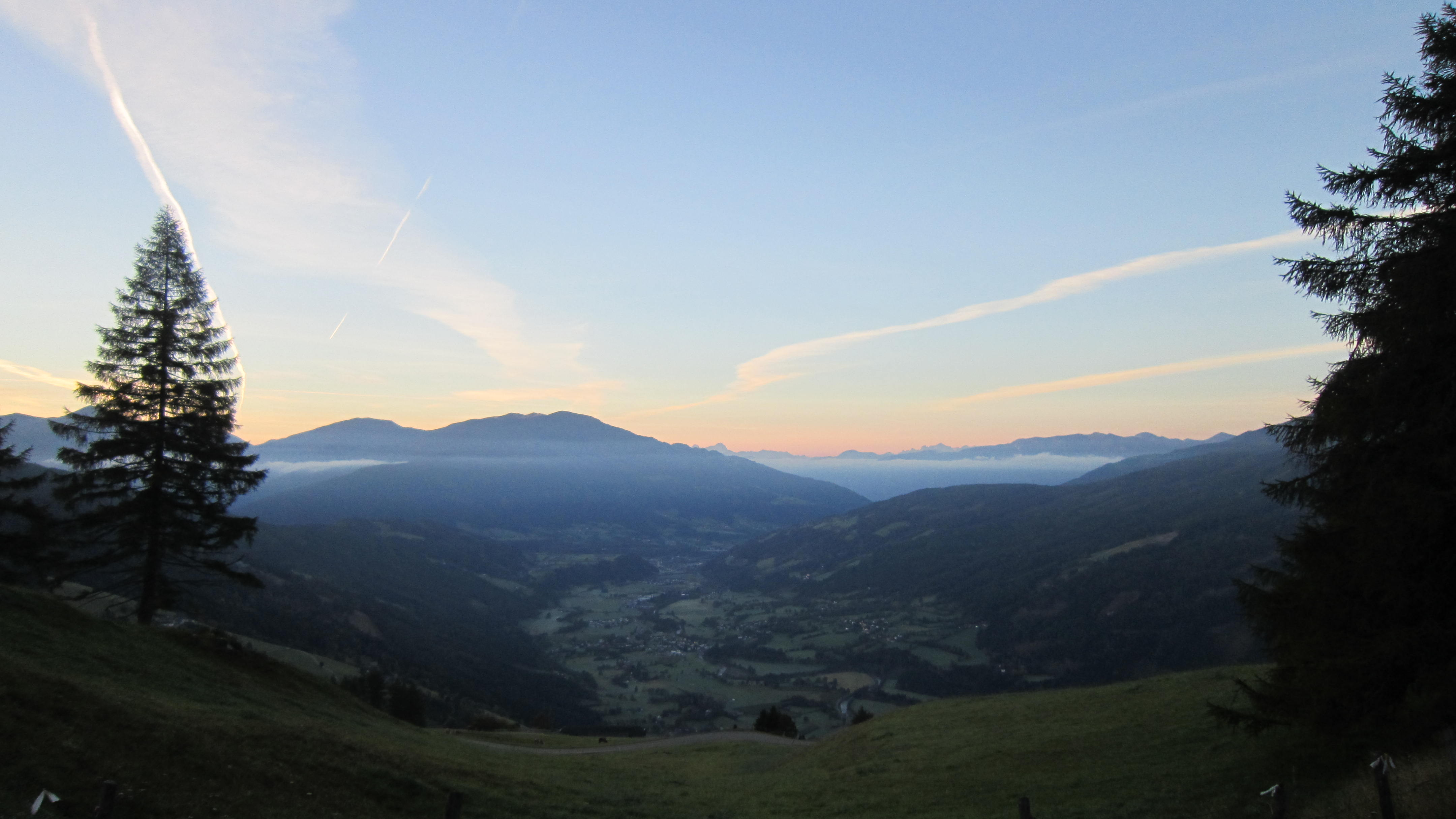 View from Maltaberg down to the Malta valley, Carinthia, Austria